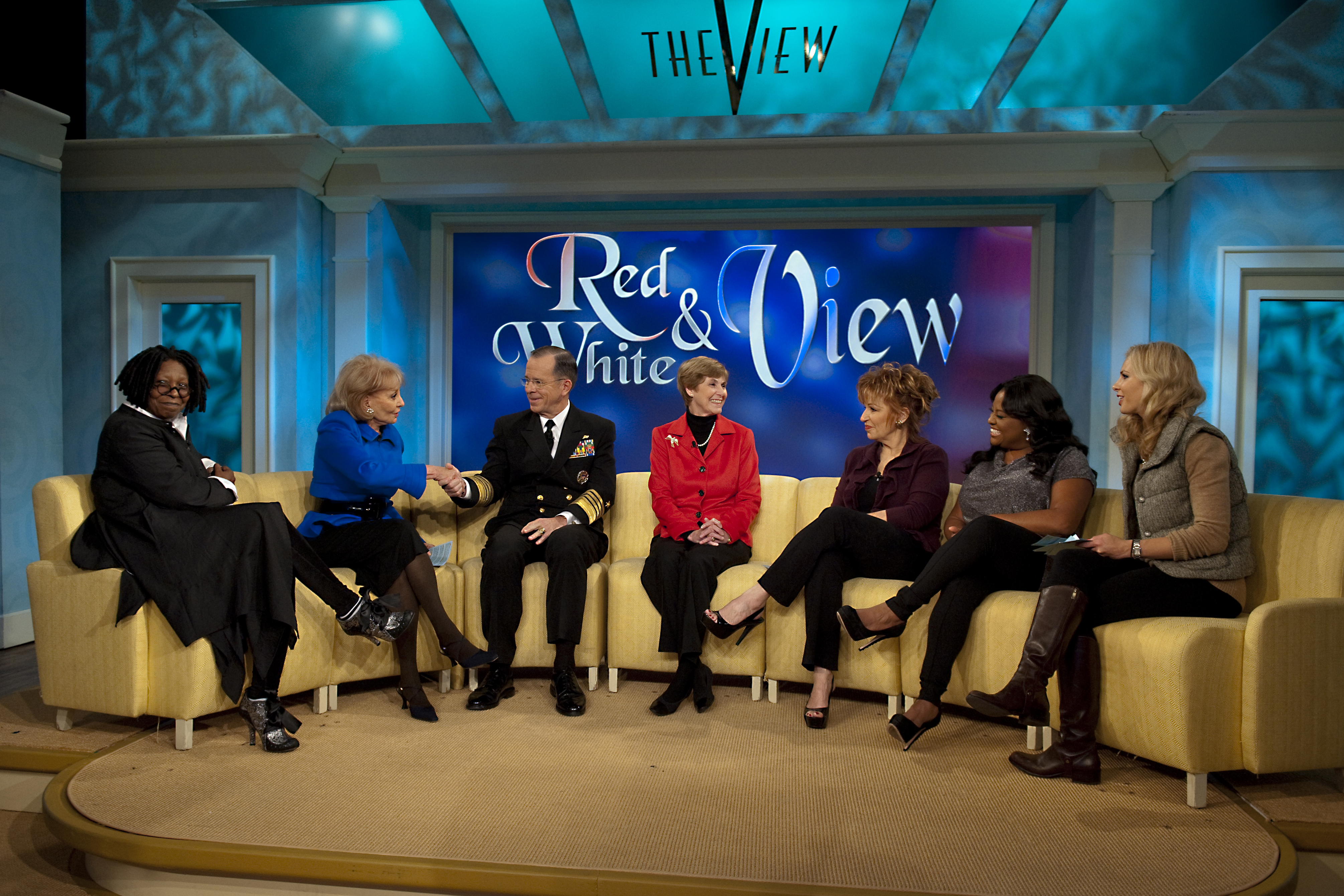 From left to right: Whoopi Goldberg, Barbara Walters, U.S. Navy Adm. Mike Mullen, chairman of the Joint Chiefs of Staff and his wife, Deborah, Joy Behar, Sherri Shepherd and Elisabeth Hasselbeck appear on The View in New York, on Nov. 24, 2010.